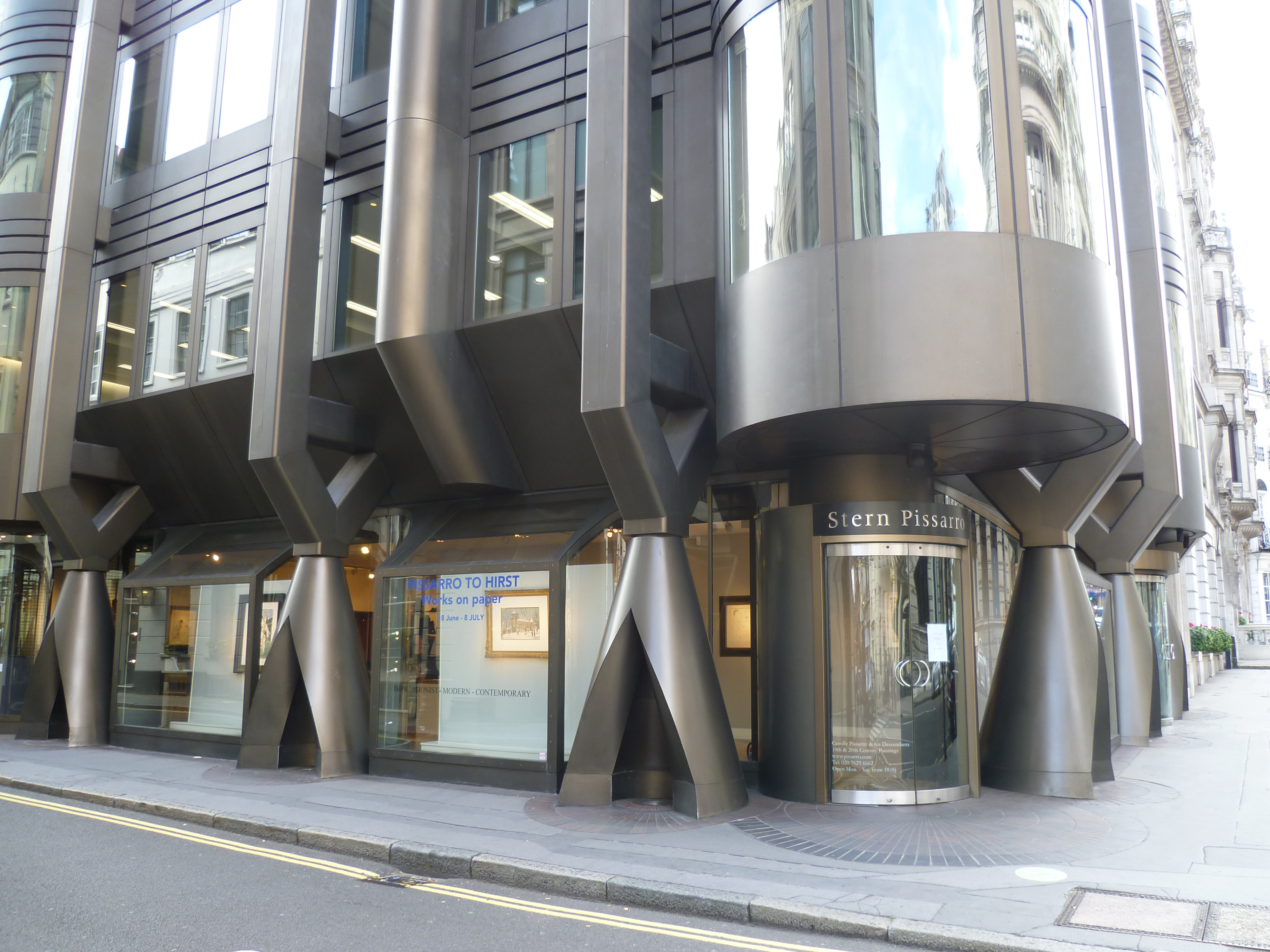 Target House, 66 St. James's Street, London SW1A 1NE